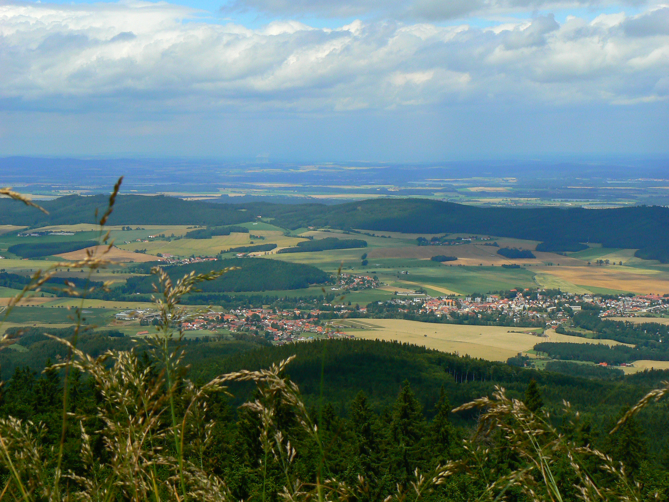 View from the lookout tower on top of Kleť Mountain, Czech Republic